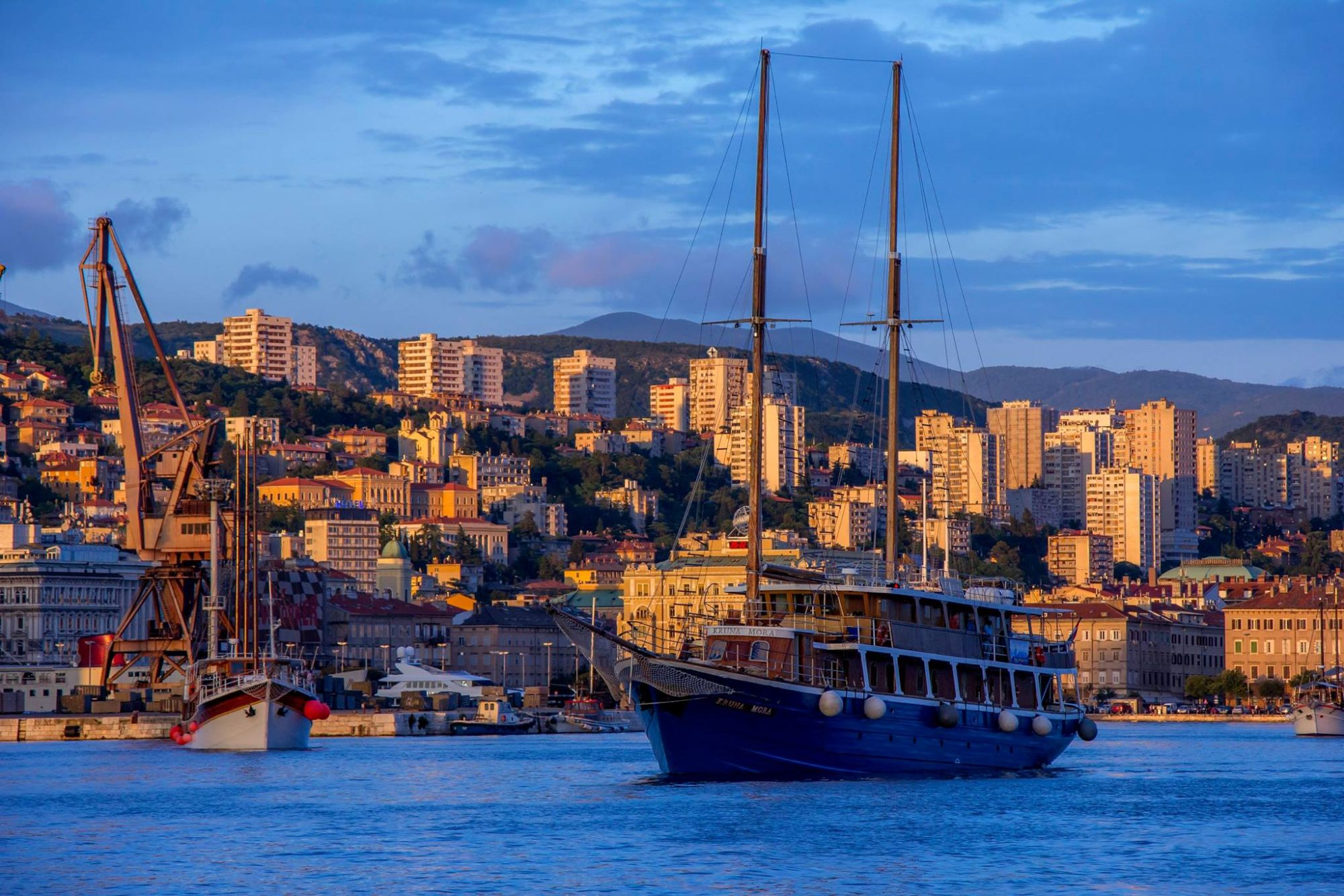 Hotel ship - Kruna Mora (Sea Crown) in Rijeka